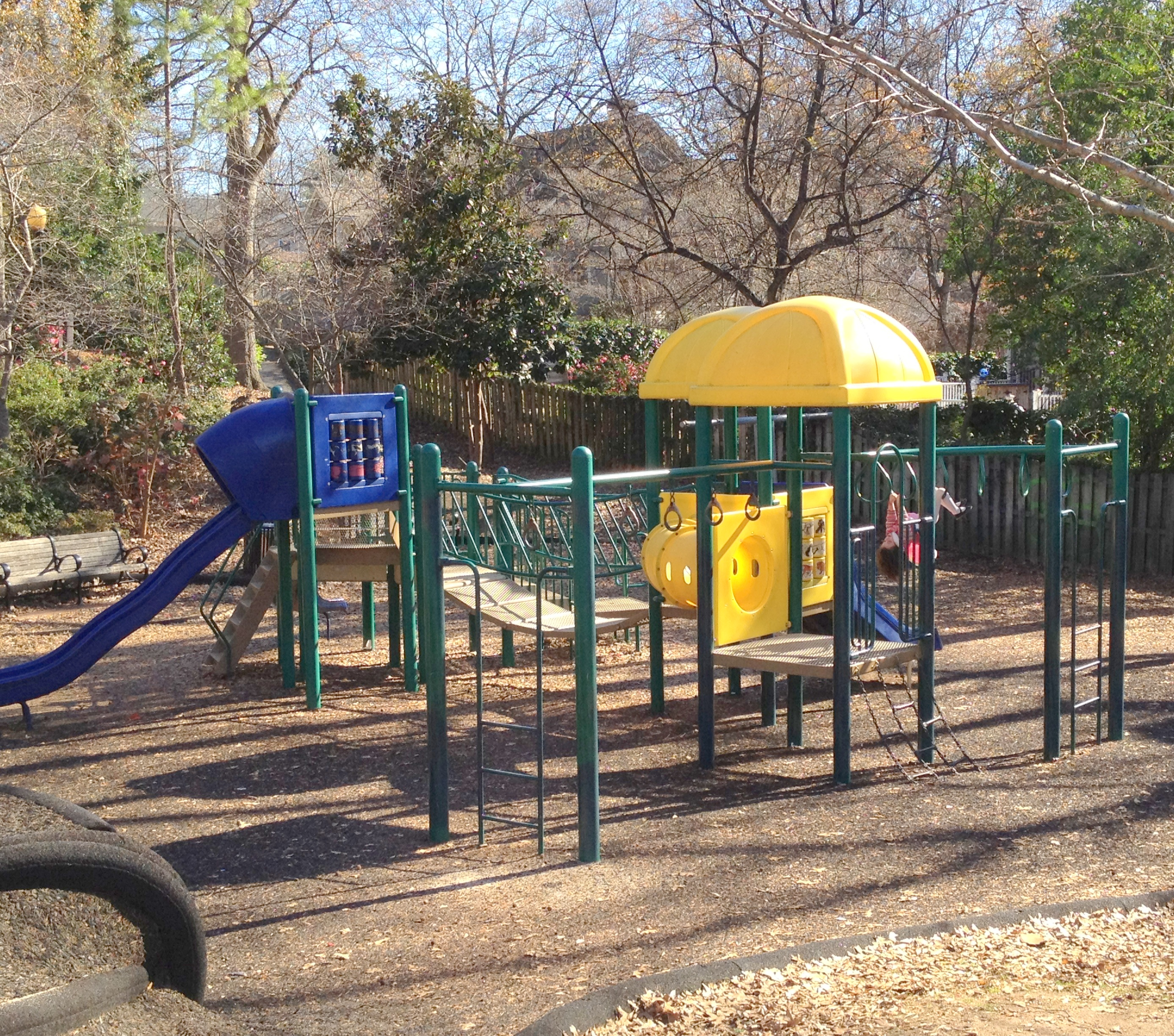 Cunard Playground at John Howell Park